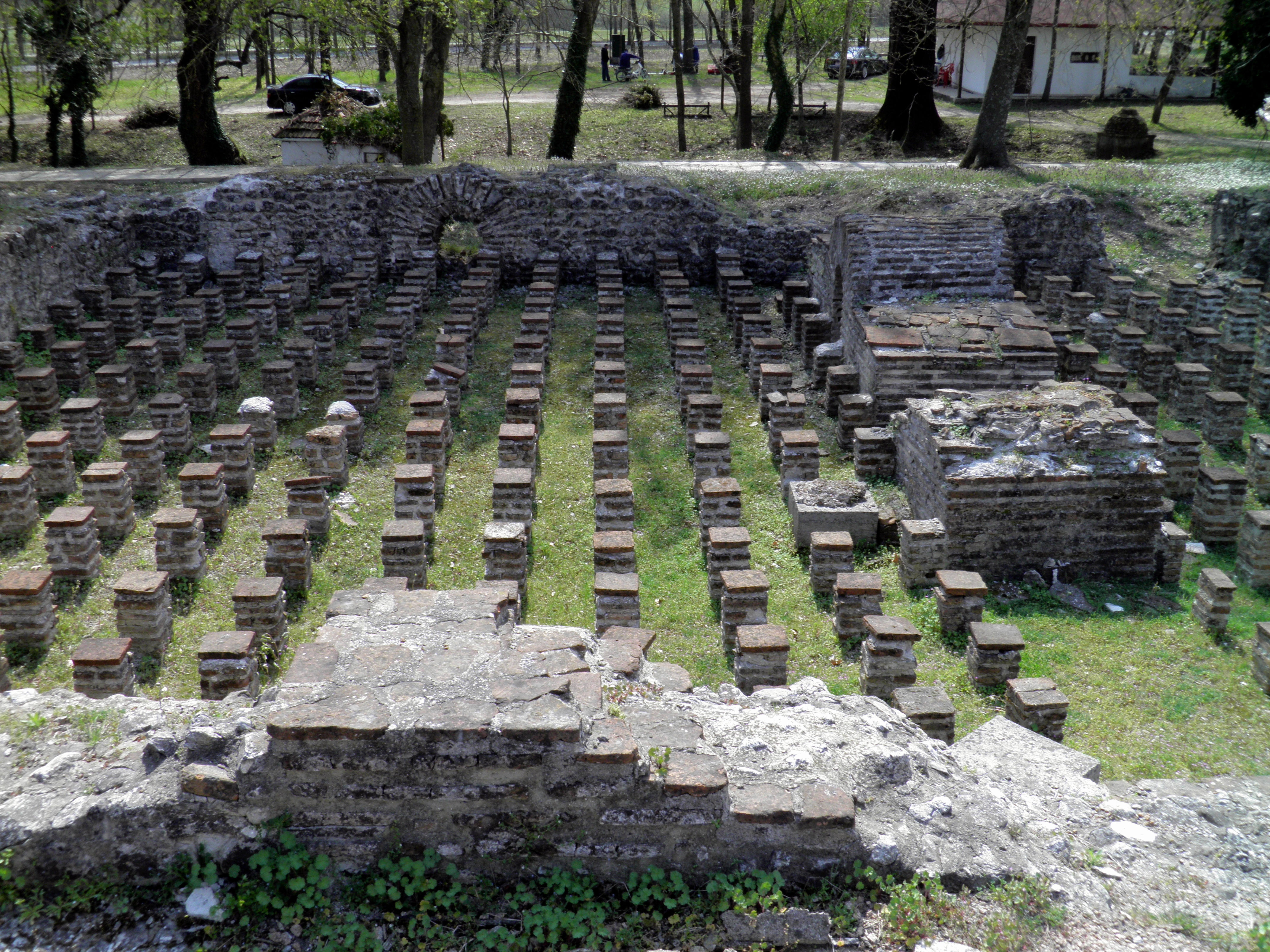 The hypocaust of the Great Baths complex, Ancient Dion